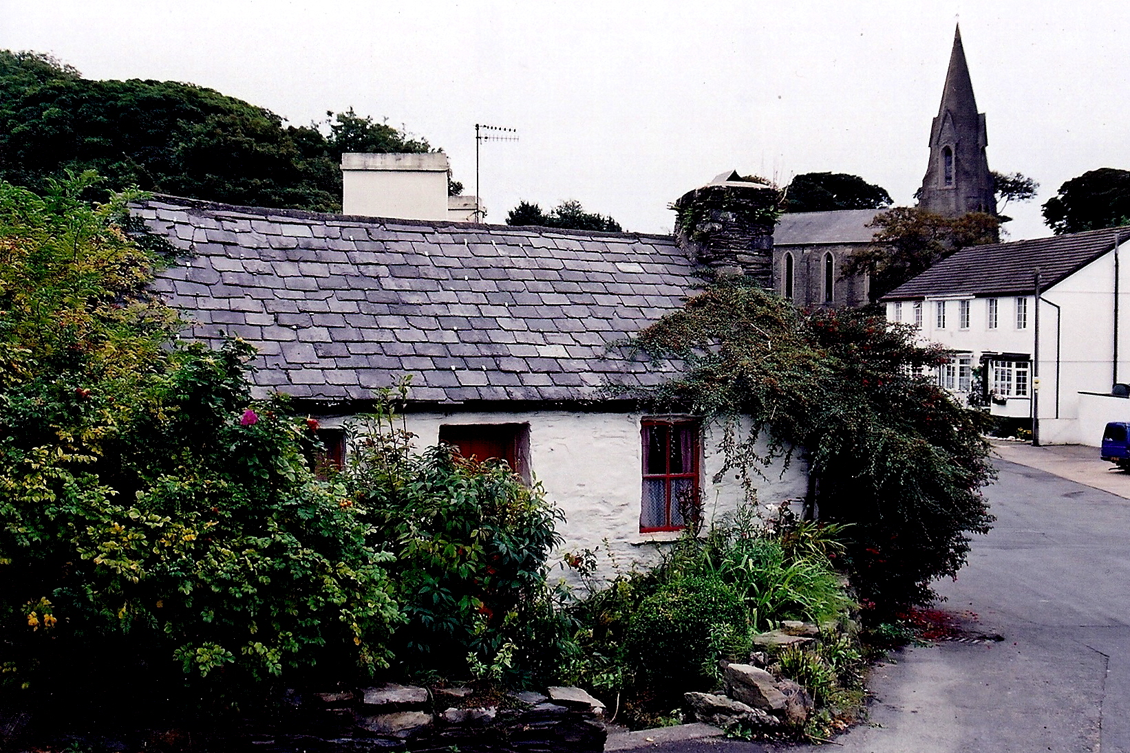 Onchan - Church Road - Molly Carrooin's cottage View is to the southeast. Location is southeast of A2 (Main Road, Whitebridge Road). This cottage is the oldest existing structure in Onchan. It was built in the 18th century, possibly as early as 1740. The original cottage had a thatched roof, but no chimney stack. Later on, a chimney stack was added, as shown in the earliest photograph of this cottage taken about 1860. Near the turn of the century, the thatched roof was replaced with a slate roof. This cottage was tenanted by Molly Carrooin and her sister. They were washerwomen who did the village laundry. The cottage became uninhabitable and the sisters were the last to occupy the cottage, moving out in the early 1930s. Ownership exchanged hands several times. In 1969, the cottage was presented to the Village of Onchan for restoration and preservation as a typical Manx cottage.